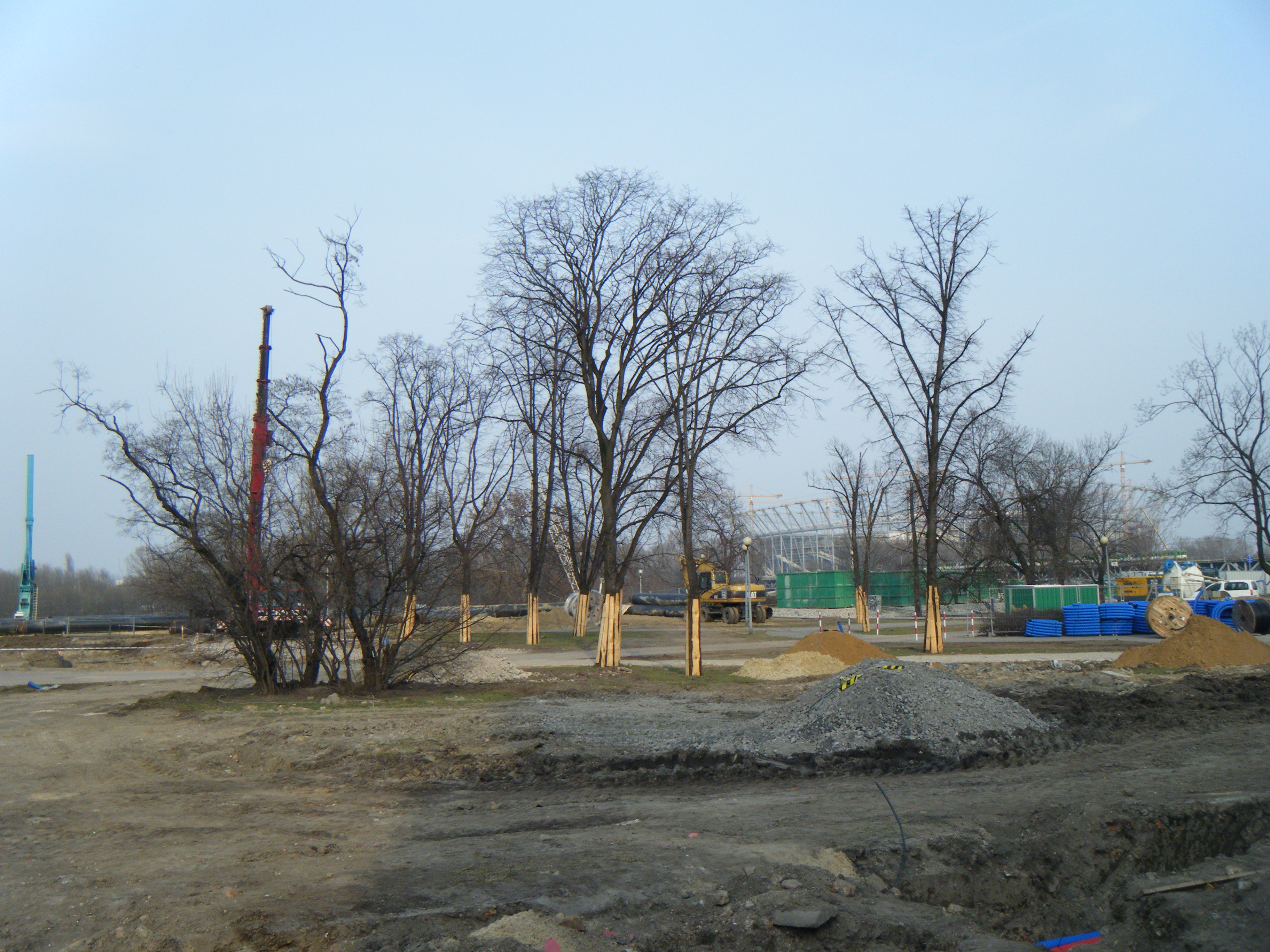 Powiśle metro station (under construction) in Warsaw